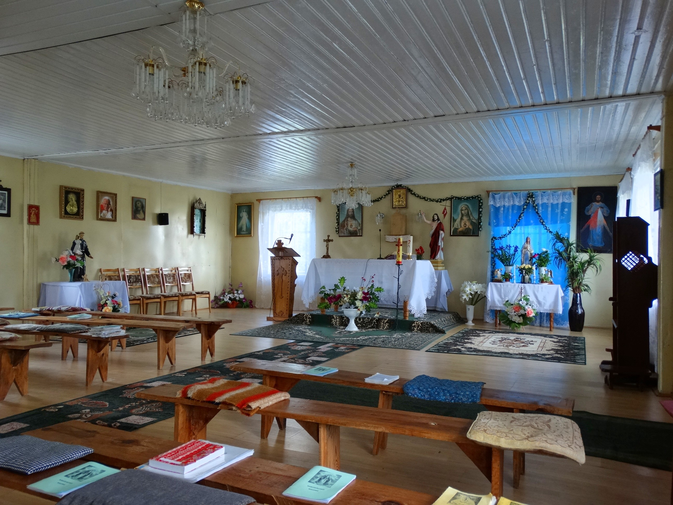 Chapel, Tetėnai, Šalčininkai District, Lithuania